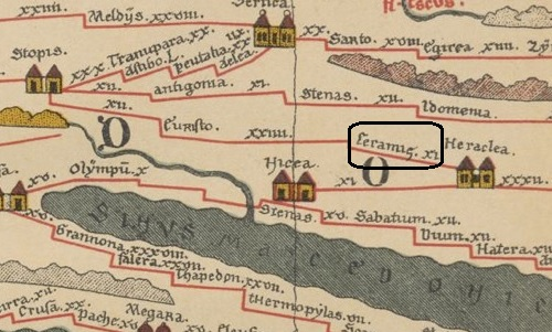 Ceramia from Tabula Peutingeriana